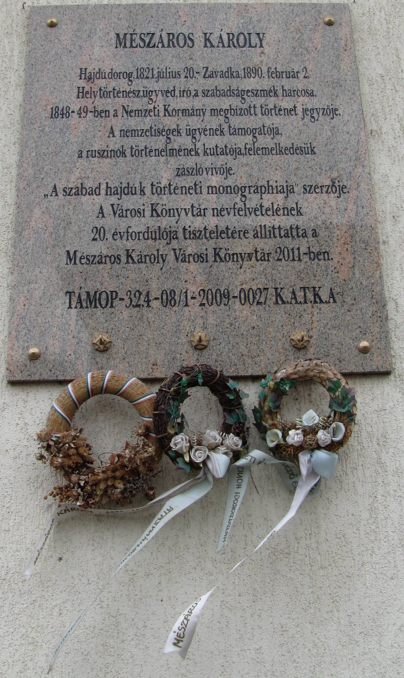 Plaque for Károly Mészáros, a Hungarian writer, historical and journalist. The plaque can be found in Hajdúdorog, Hungary on the wall of the town's library. The text on the plaque says: "Károly Mészáros, born in Hajdúdorog, July 20th, 1821 - died in Zavadka, February 2nd, 1890. Local historian, attorney, writer, fighter for the words of freedom. Historical writer of the National Government during the 1848/49 revolution and freedom fight. Supporter of the case of the Hungarian nationalities, researcher of the history of the Ruthens and supporter of their emerge. Author of the "Historical monograph of the free Hajduk". Erected for the 20th anniversary of the naming of the Municipal Library in the year 2011."